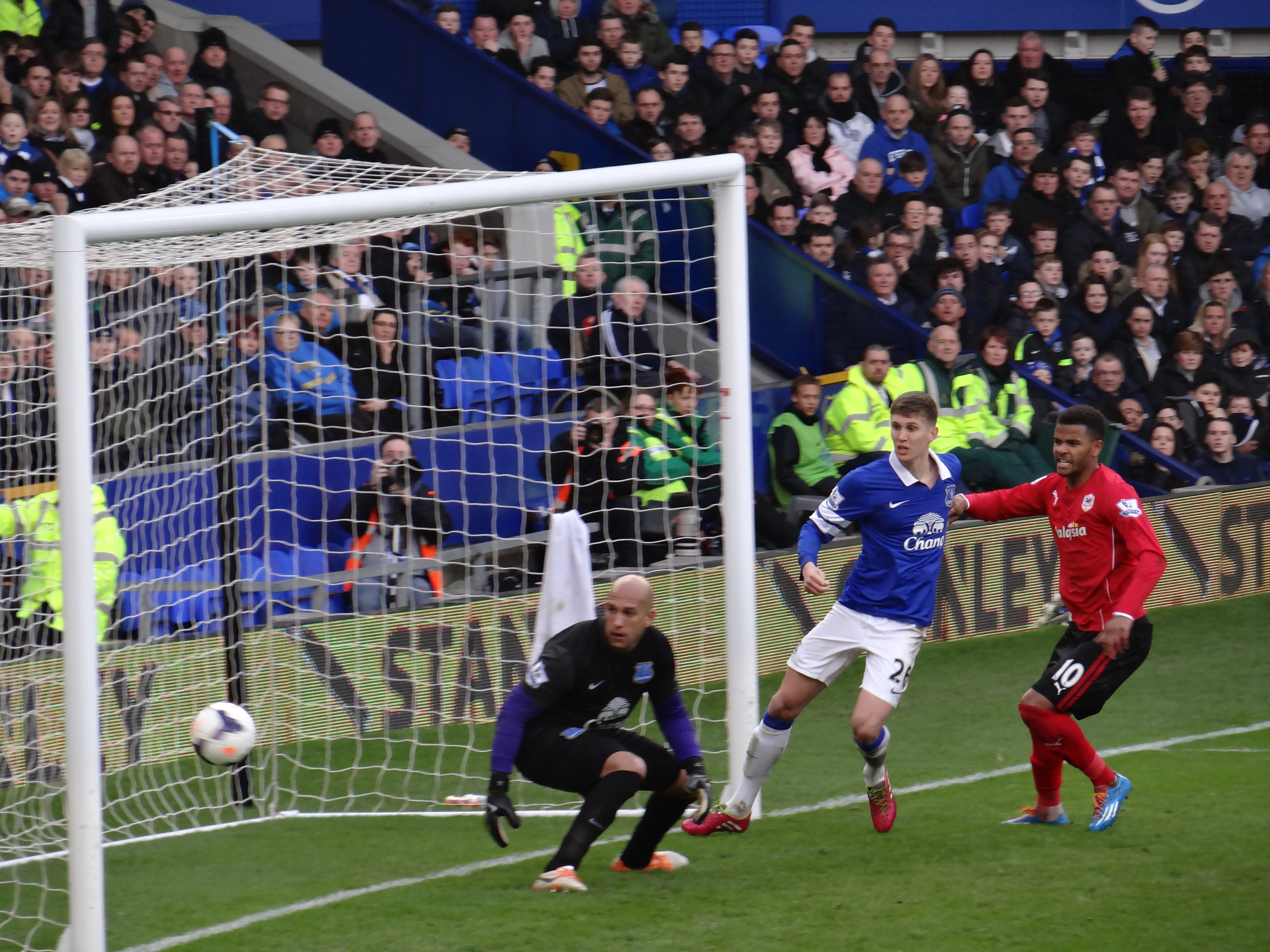 American football player Tim Howard and English John Stones (both Everton) and English player Fraizer Campbell of Cardiff City.